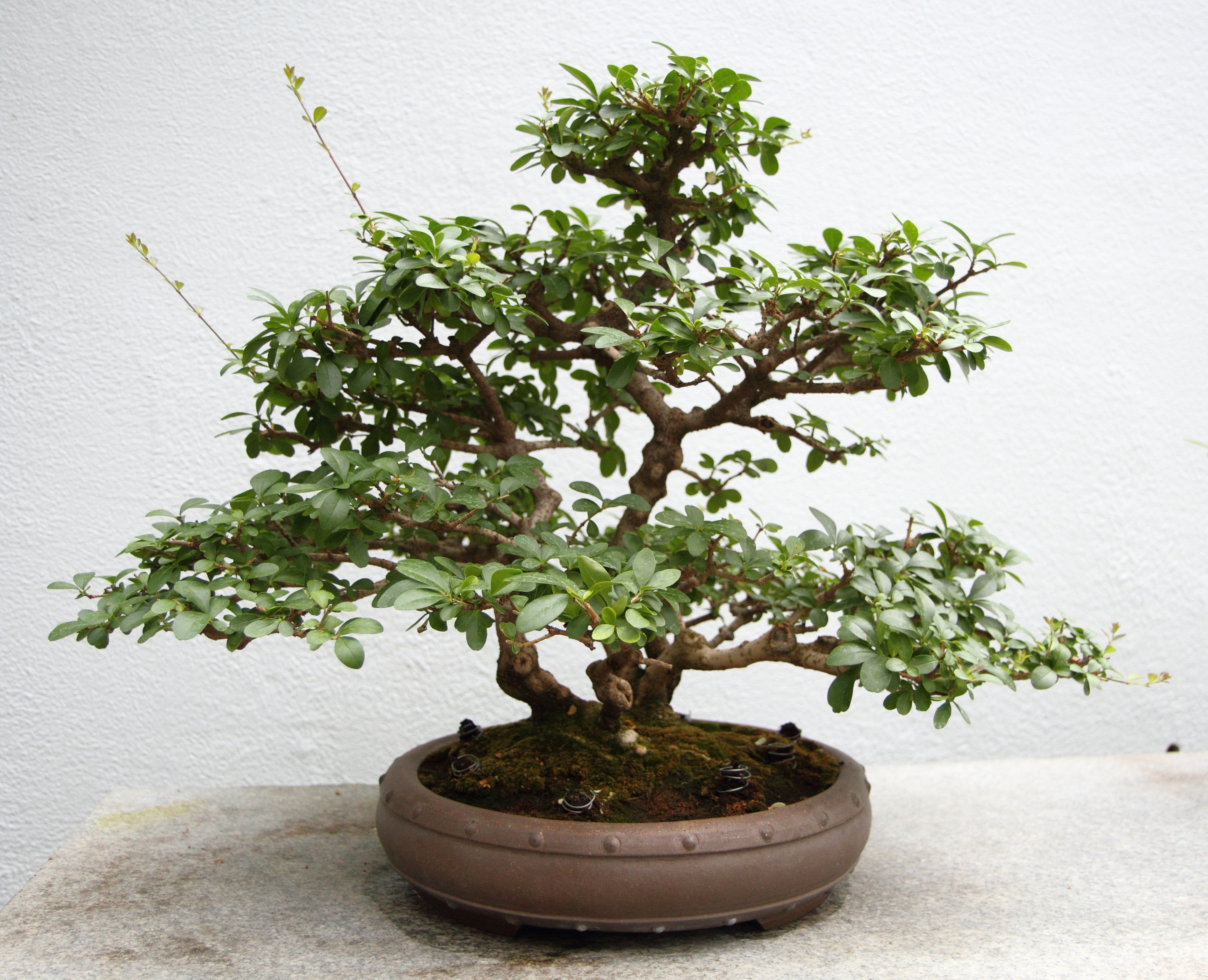 Ligustrum sinense Penjing in greenhouses of the Montreal Botanical Garden, Montreal, Quebec